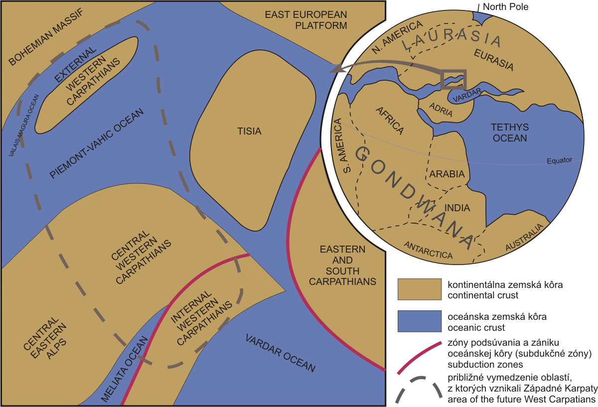 Paleogeographic situation in the Northern Hemisphere in the Upper Jurassic (aprox. 150 Ma) times (Modiefied after Plašienka). The Western Carpathian units and the future Slovak territory was formed by gradual collision of the Adriatic/Apulian continental block with the southern margin of Eastern European Craton and Bohemian Massif, after the closure of three Tethyian oceanic domains. The Meliata Ocean was clodsed during the Jurassic, the Piemont-Vahic Ocean in the Late Cretaceous and Valais-Magura Ocean in the Early Tertiary.